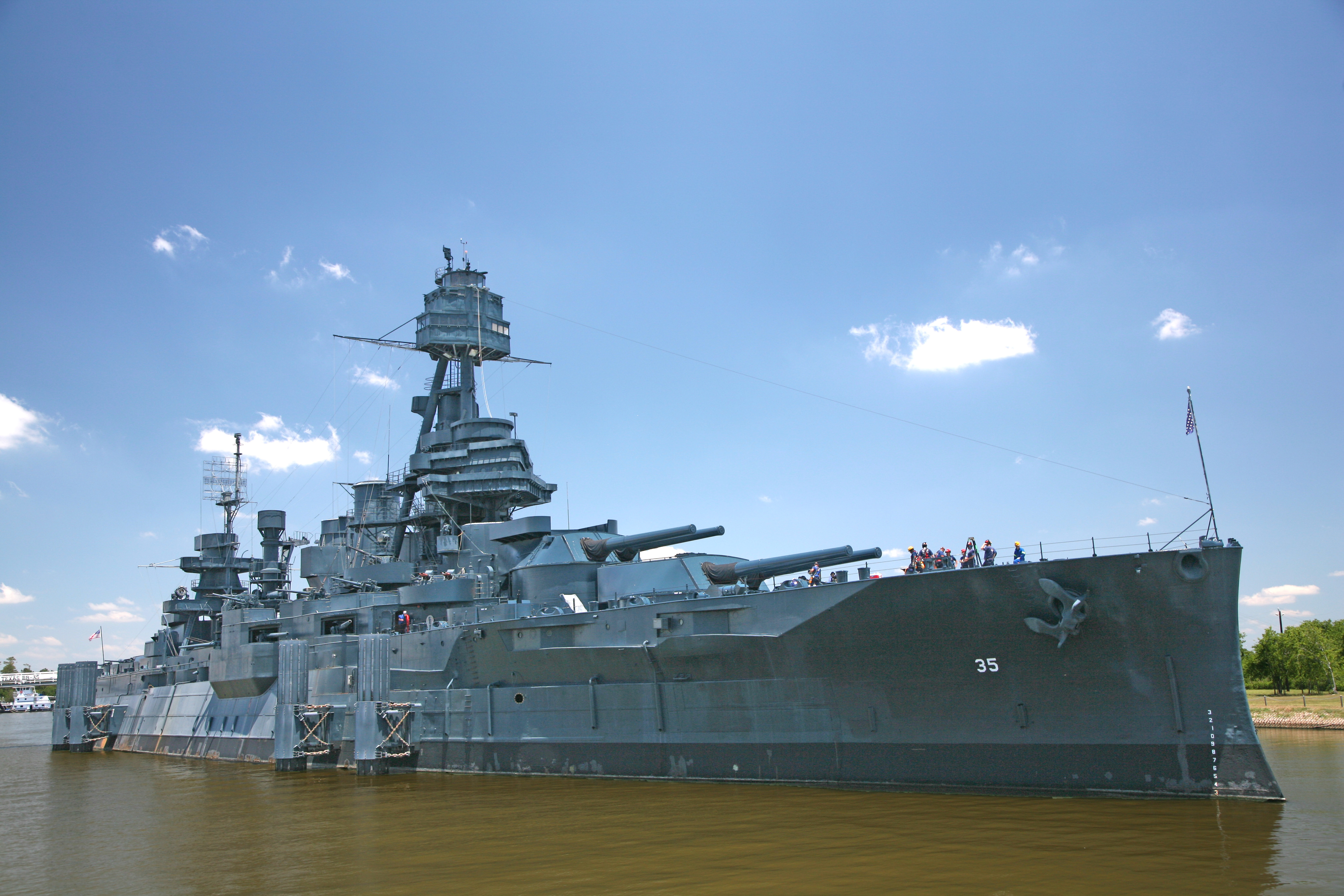 Battleship Texas